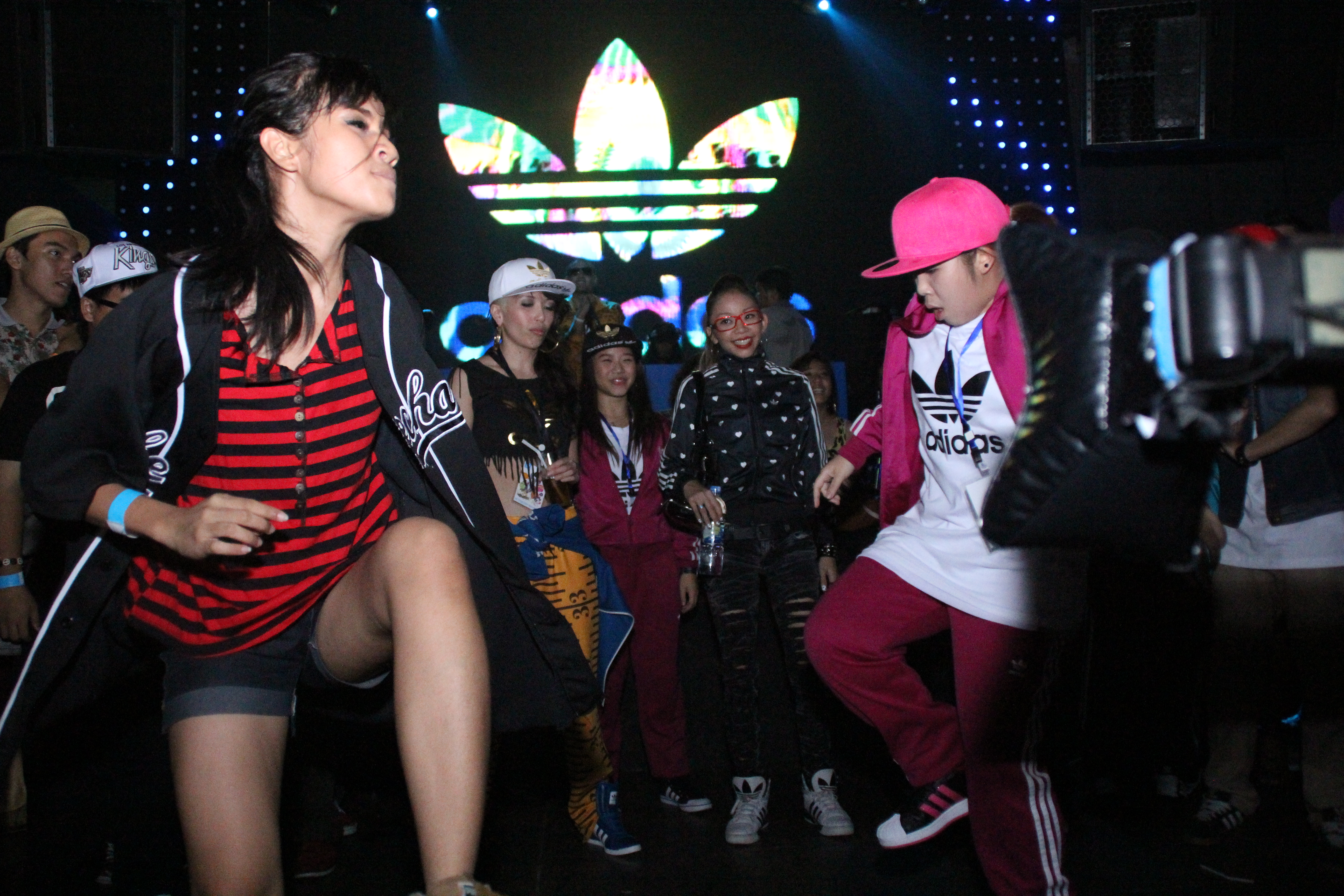 Adidas Breathe & Stop Tour, Led Club, Bangkok